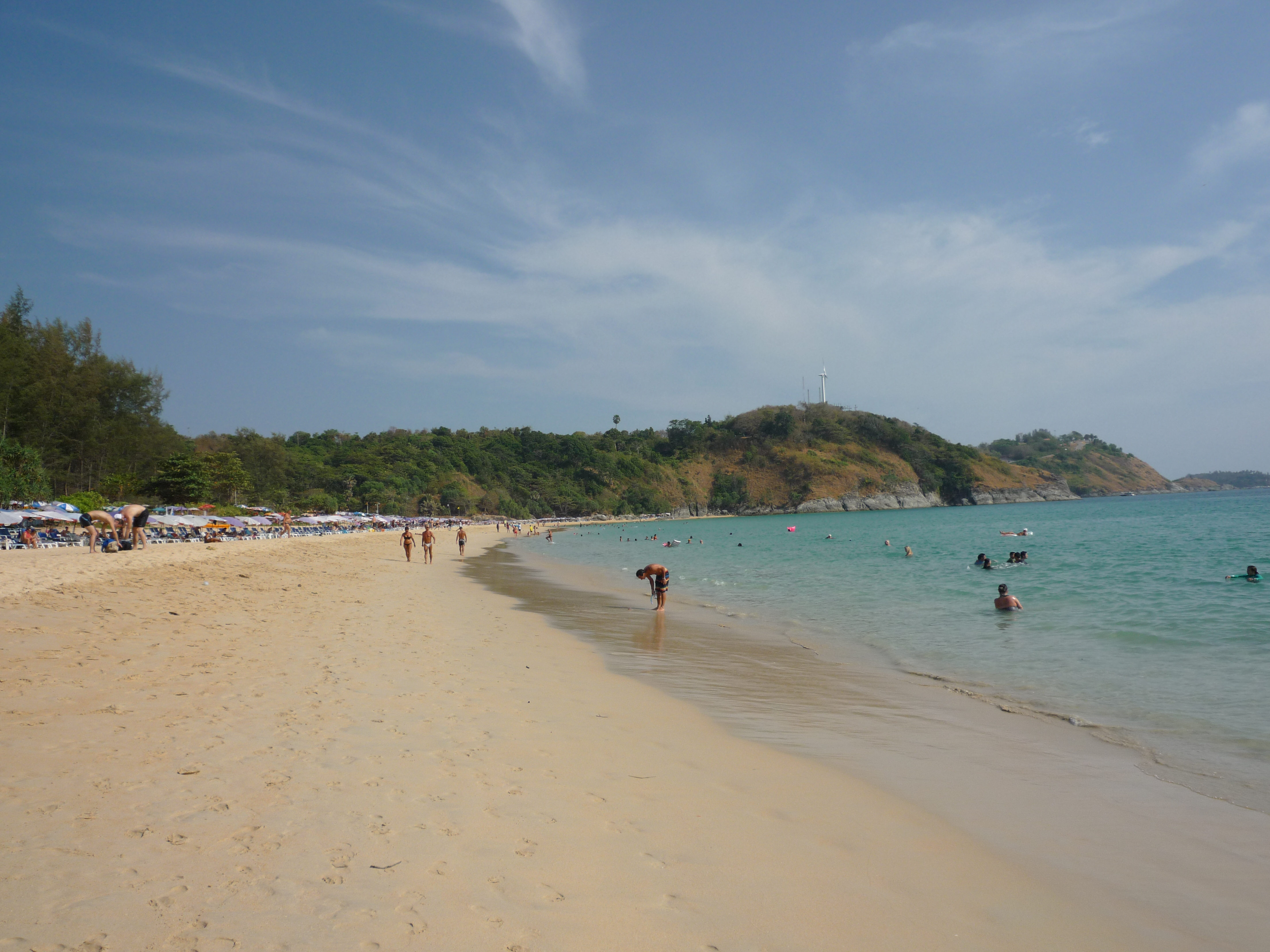 Nai Harn Beach, Phuket, Thailand